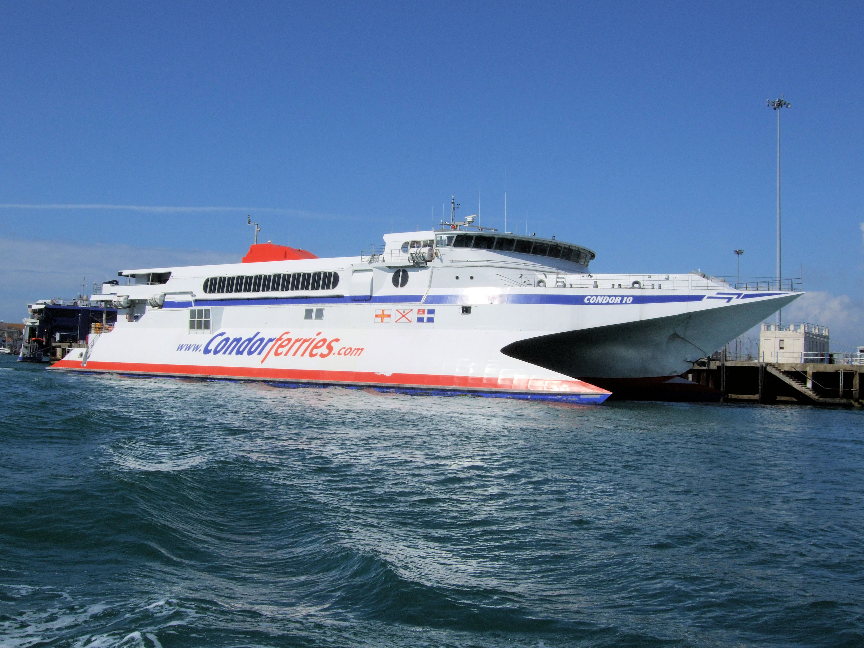 The HSC Condor 10 is a 74m fast catamaran ferry operated by Condor Ferries.